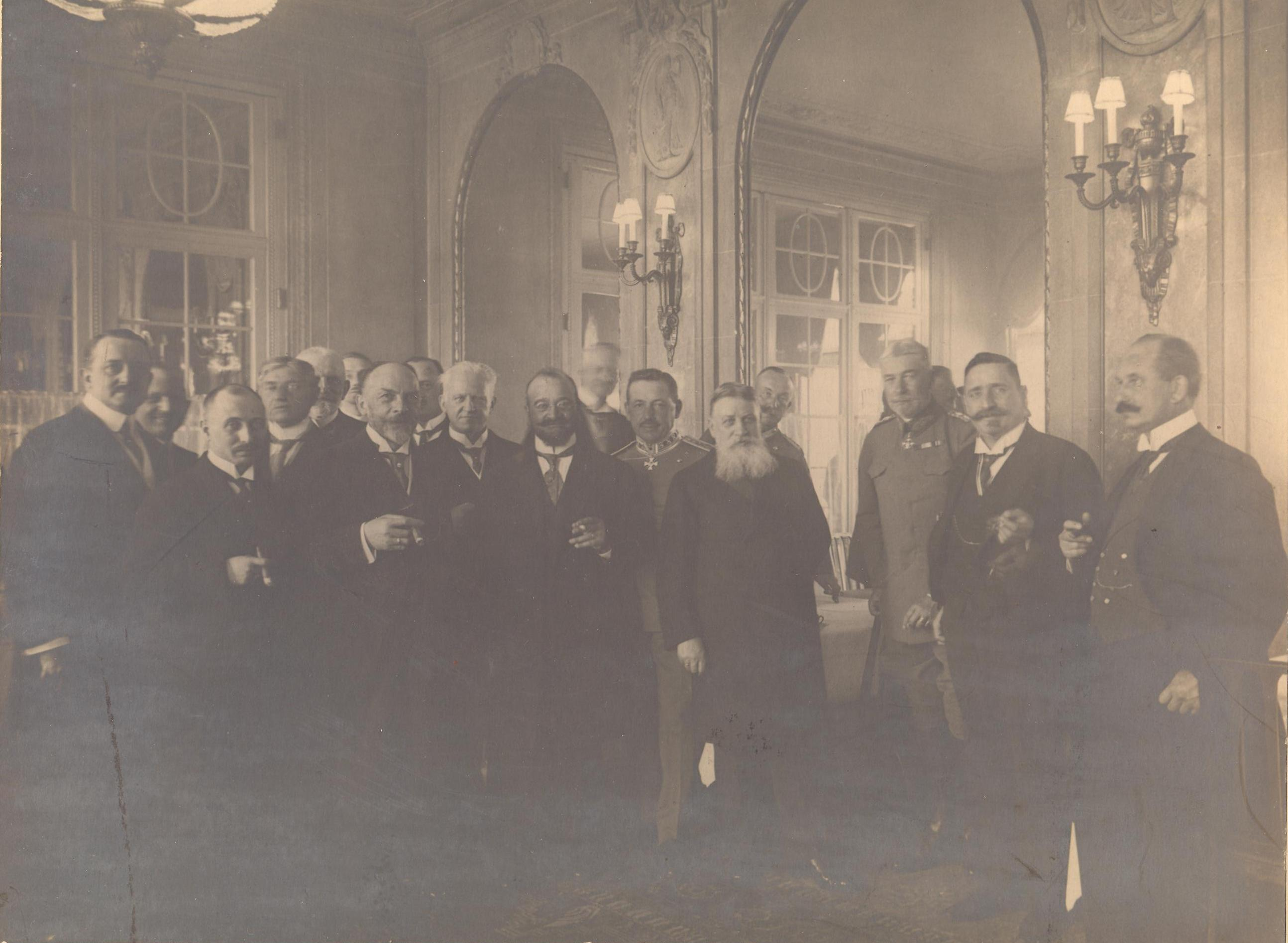 Vasil Radoslavov, Berlin, 1917.